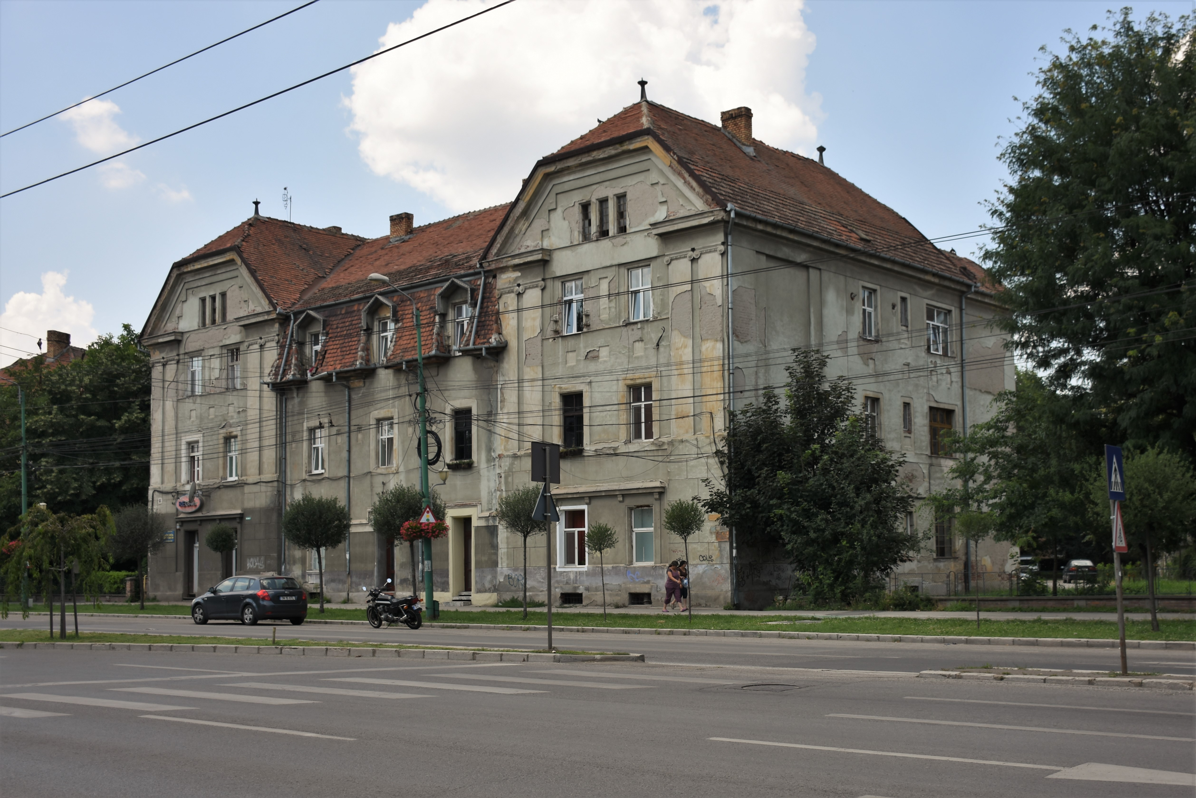 Workers' apartment houses on Baader Street / Take Ionescu Boulevard. Timișoara, Romania. Photo: 2 July 2016